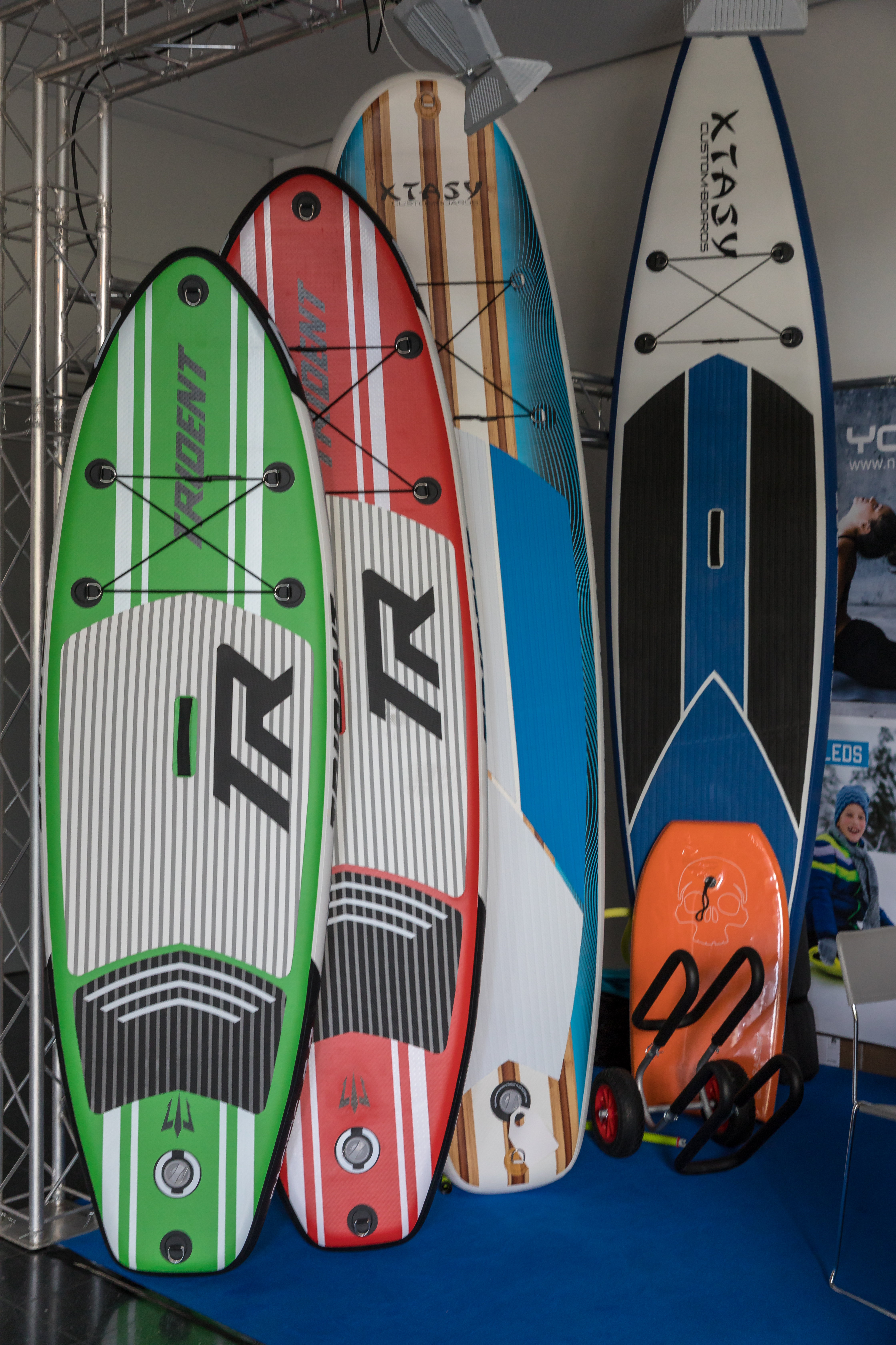 Press preview, OutDoor 2018